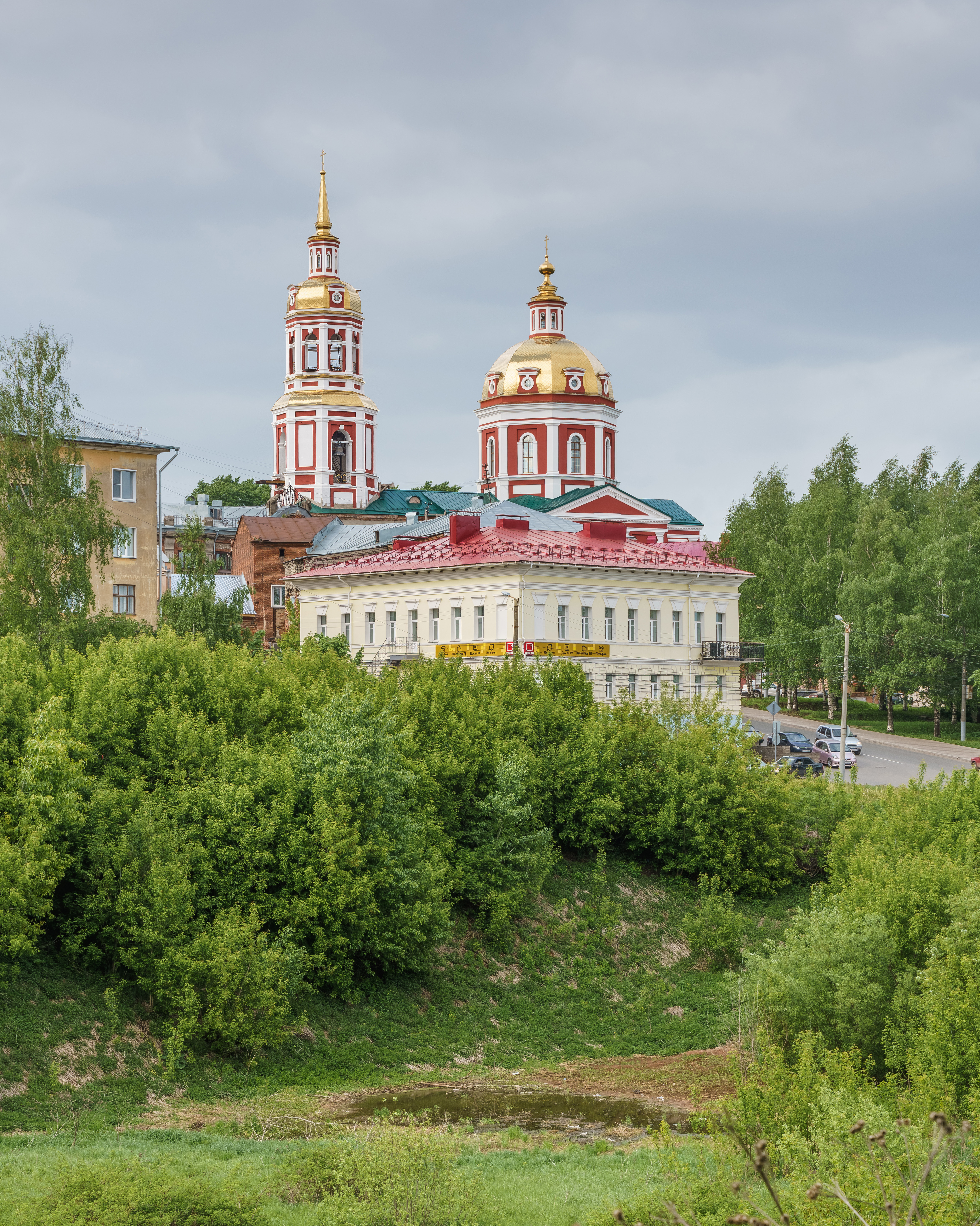 View towards Holy Mandylion Church in Kirov, Russia